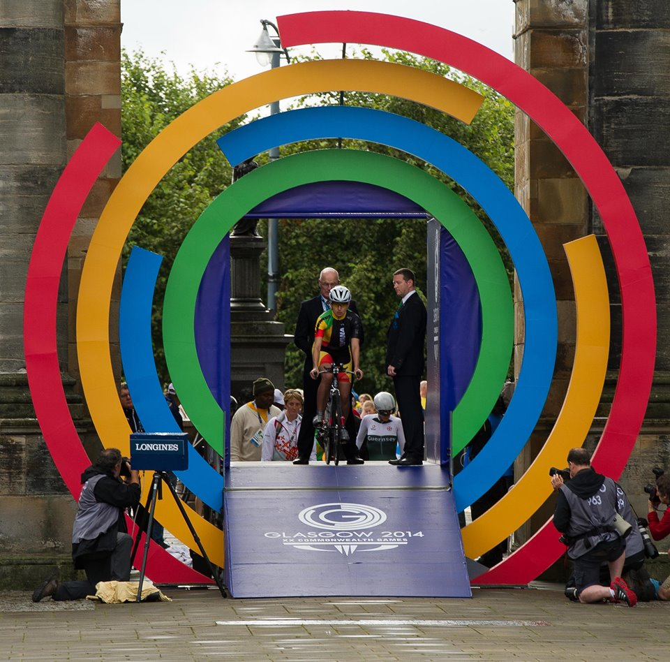 Claire Fraser on the Commonwealth Games TT start ramp in Glasgow